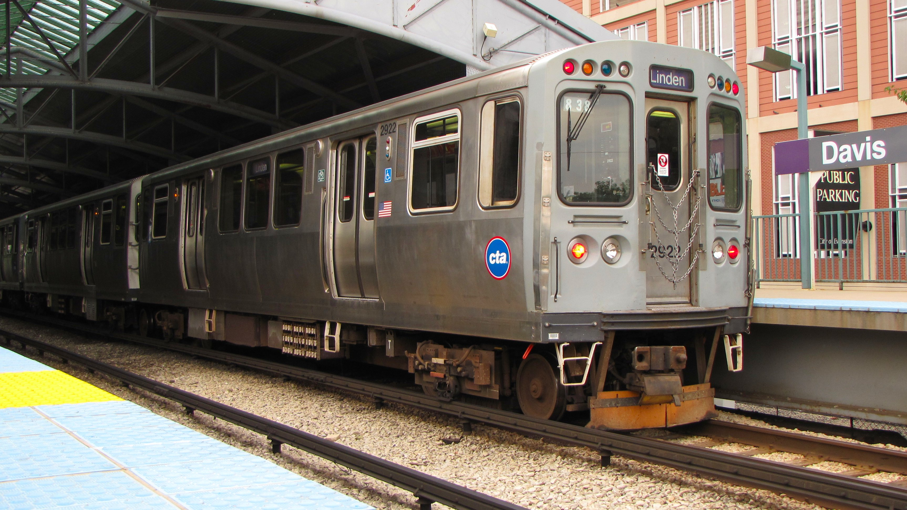 A CTA Purple Line train to Linden makes a stop at Davis station in Evanston, Illinois.